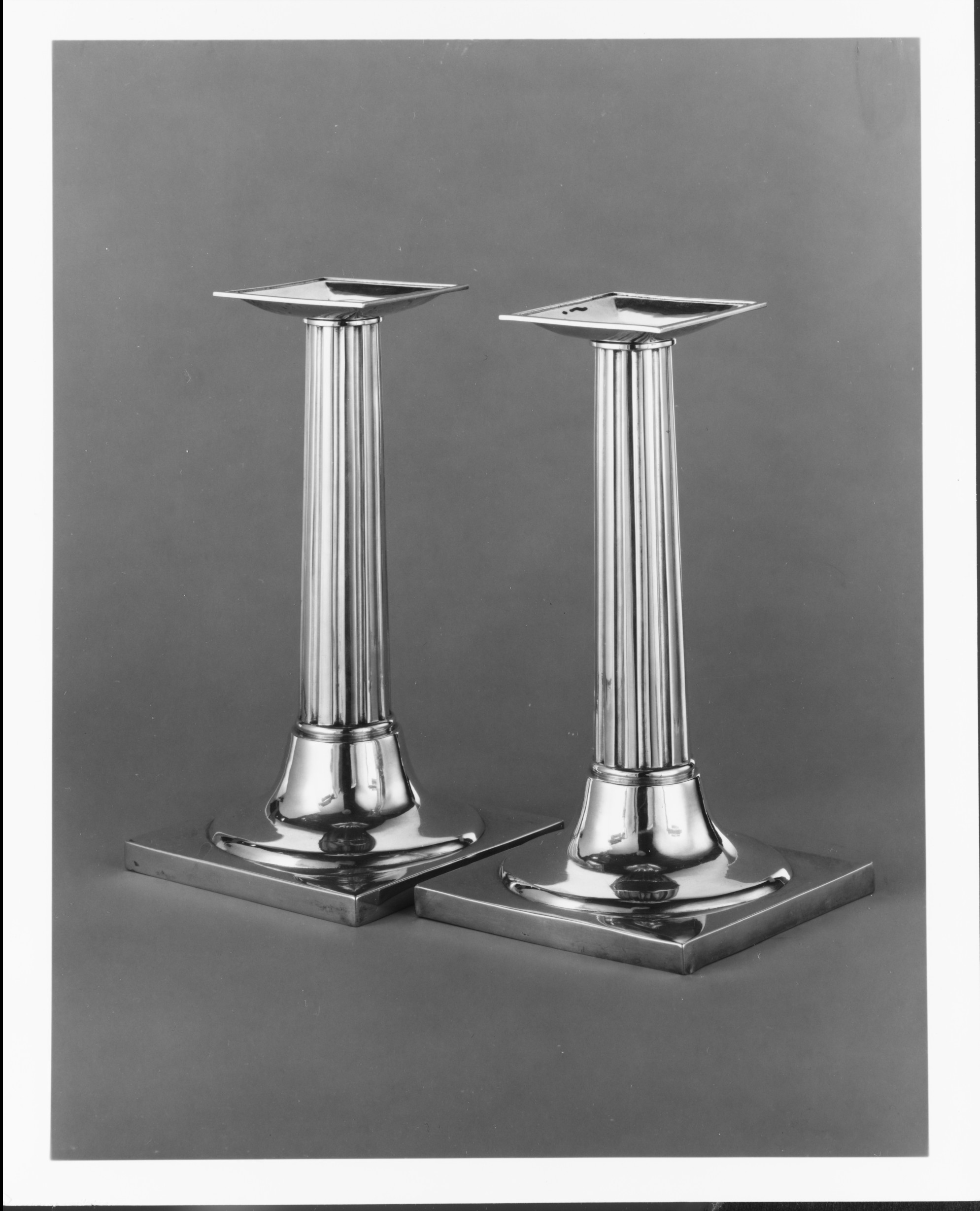 American; Candlestick; Silver